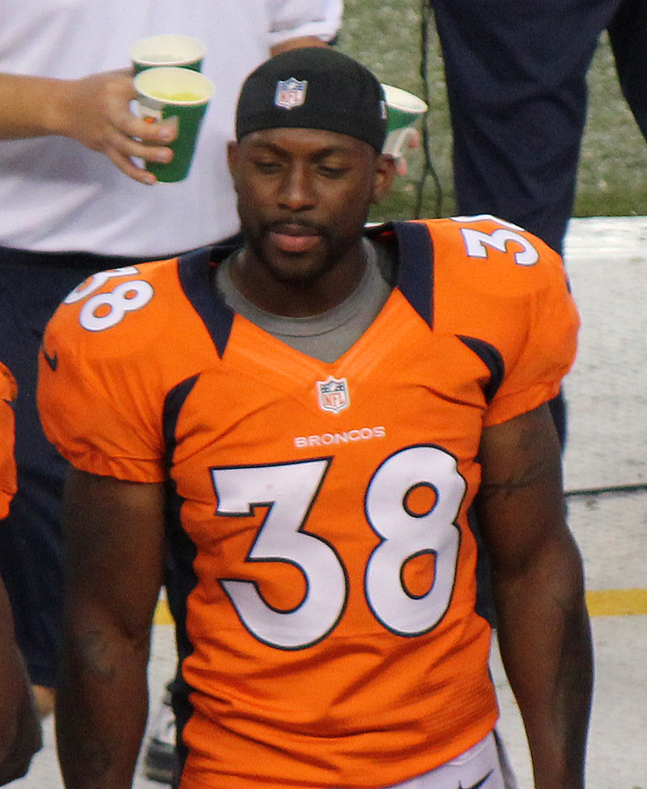 Ramzee Robinson, a player on the National Football League.